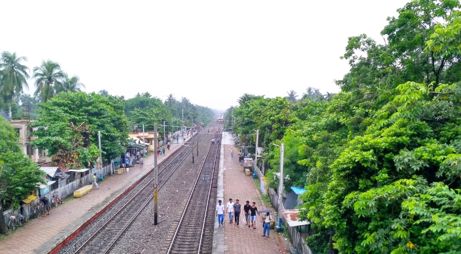 Bisharpara Kodalia